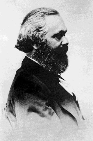 Karl Marx, retouched reproduction of a carte de visite, 1867 made in Hanover by Friedrich Wunder